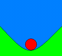 a ball in a valley, as a allegory to atmospheric stability